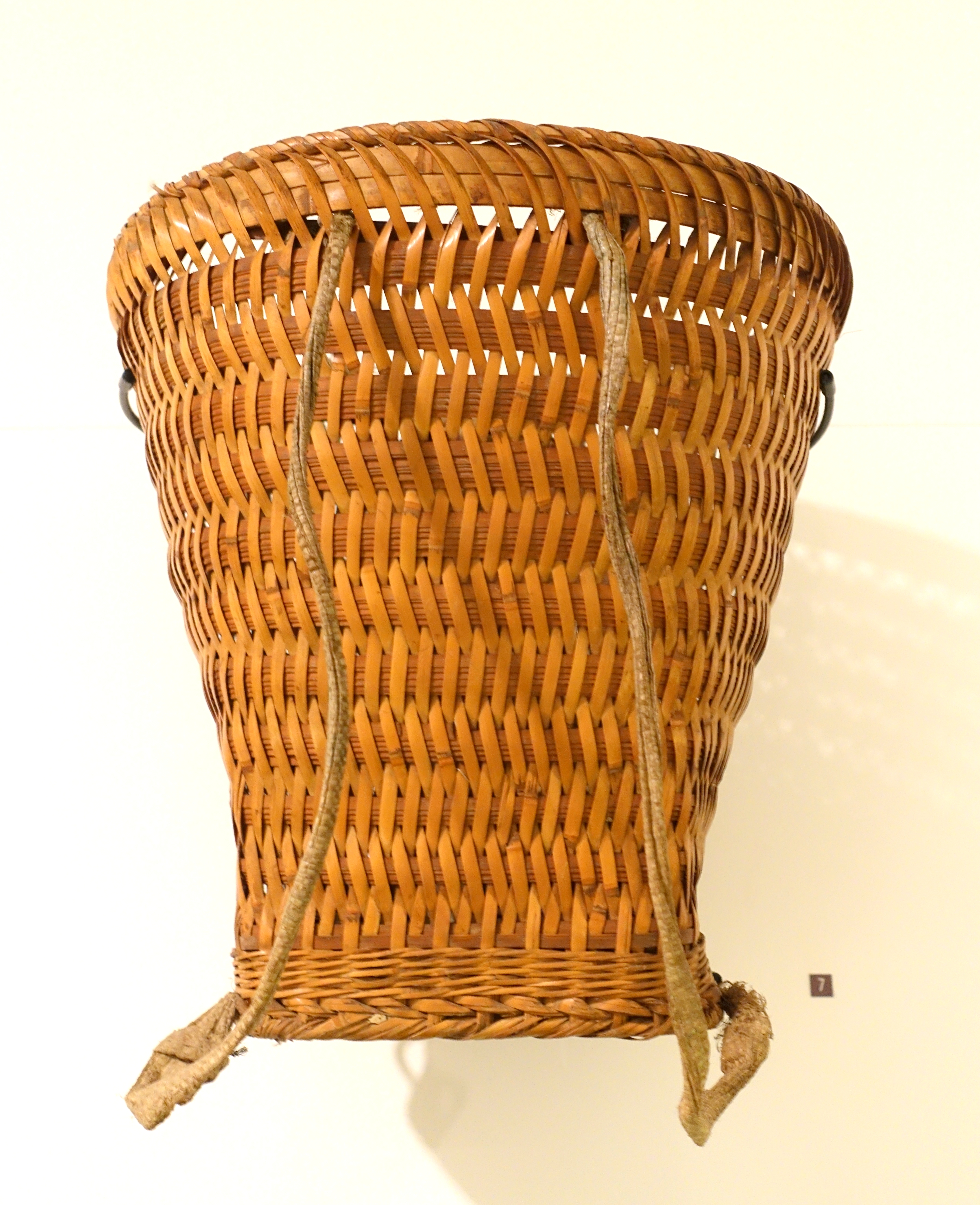 Exhibit in the Vietnamese Women's Museum, Hanoi, Vietnam.